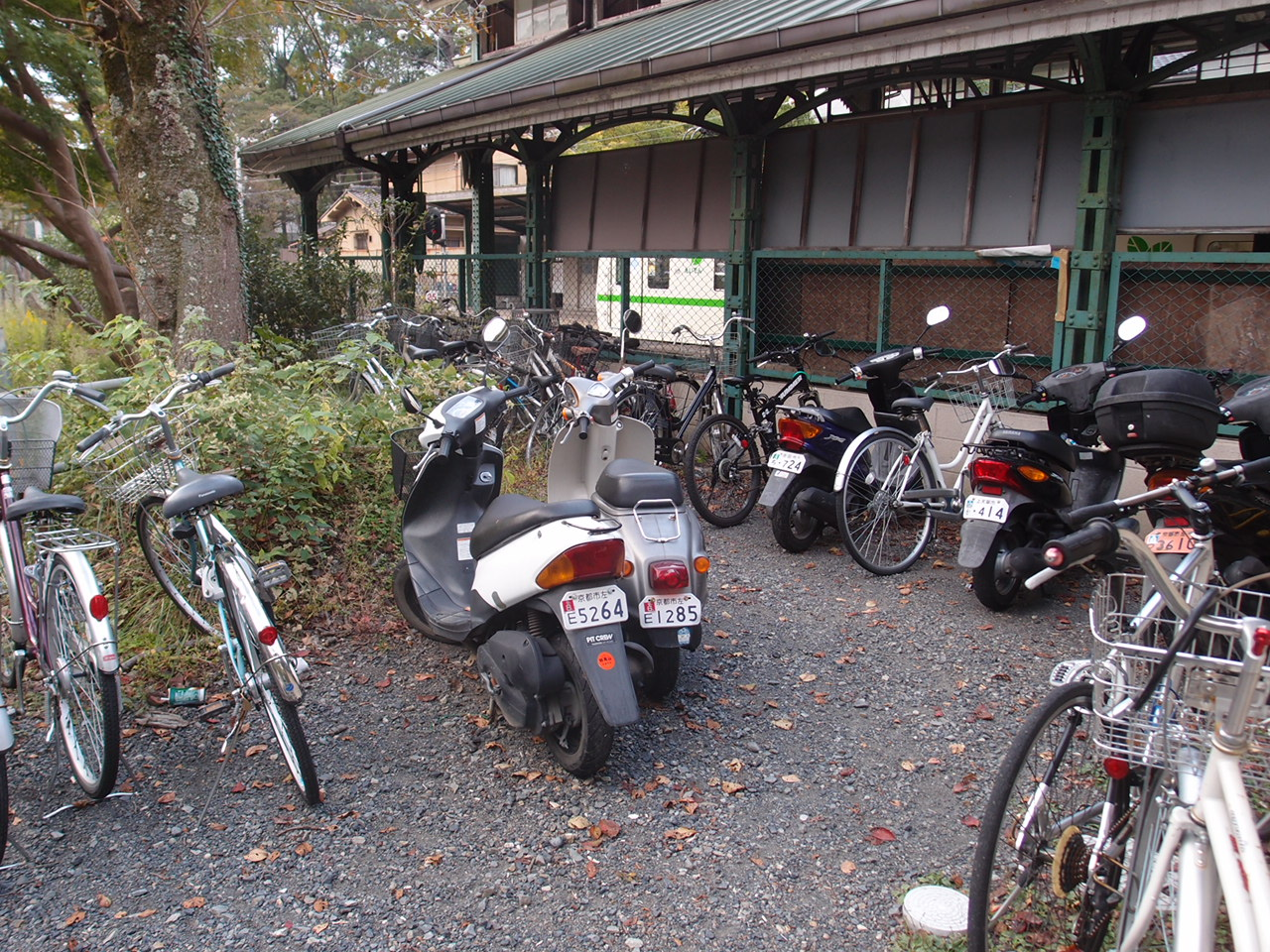 Eizan Electric Railway in Kyoto, Japan.